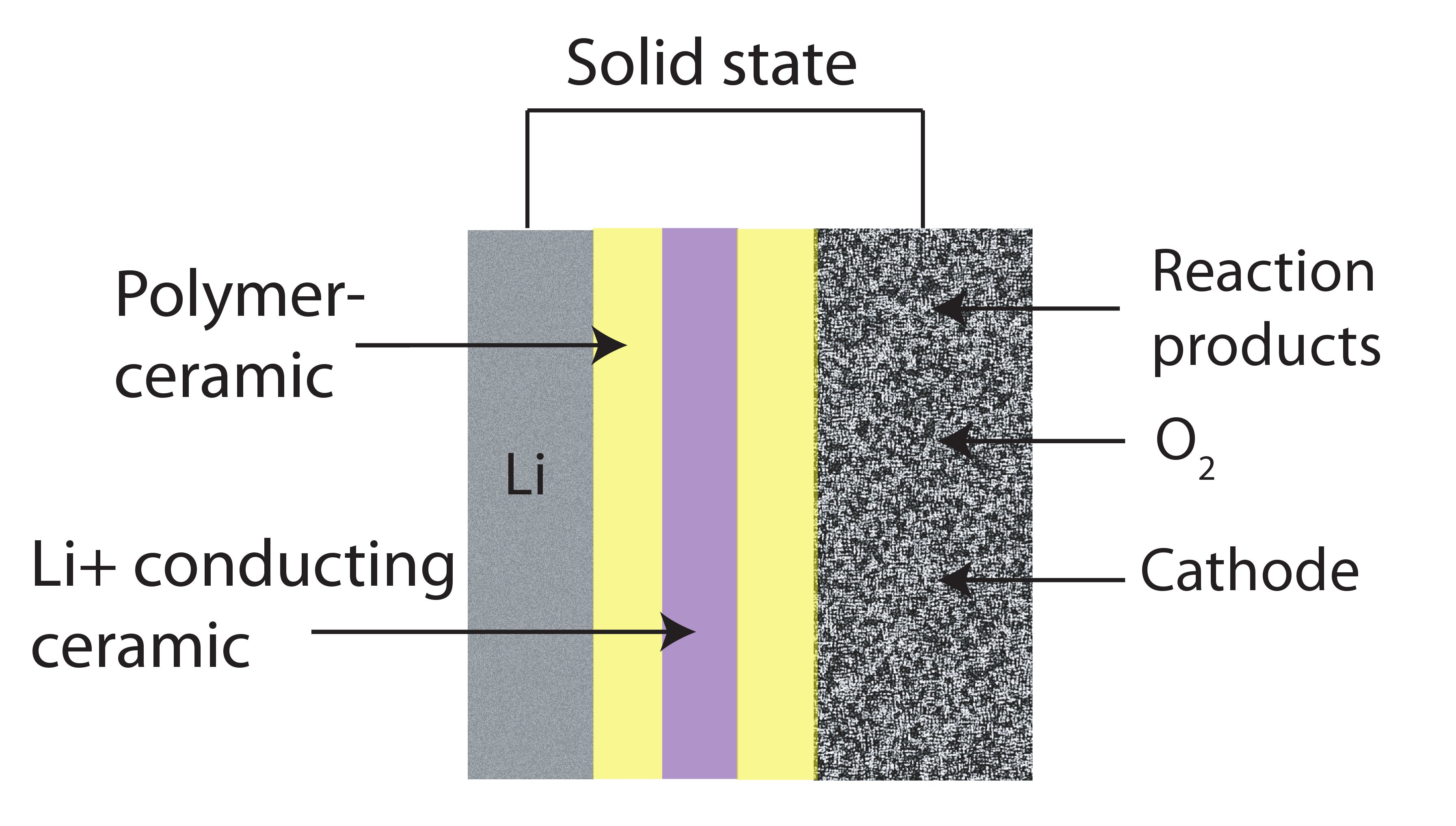 Schematic of a fully solid-state type Lithium-air battery design